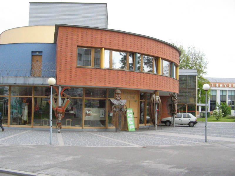 Loutkove divadlo Ostrava/Puppet theater in Ostrava, Czech republic